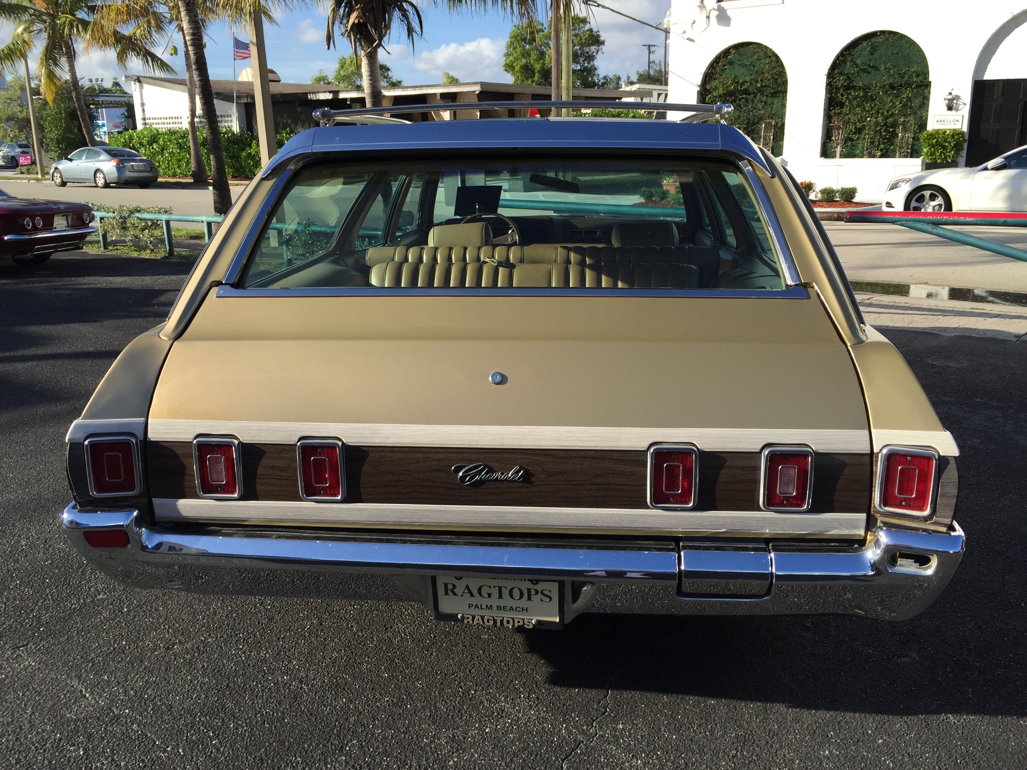 1970 Chevrolet Kingswood Estate. A surviving original factory condition four-door station wagon with three rows of seats, with the rearmost one facing backwards. Finished in beige with woodgrain paneling trim on bodysides and tailgate. This car also has the optional 400 CID (6.55 L) V8 engine.